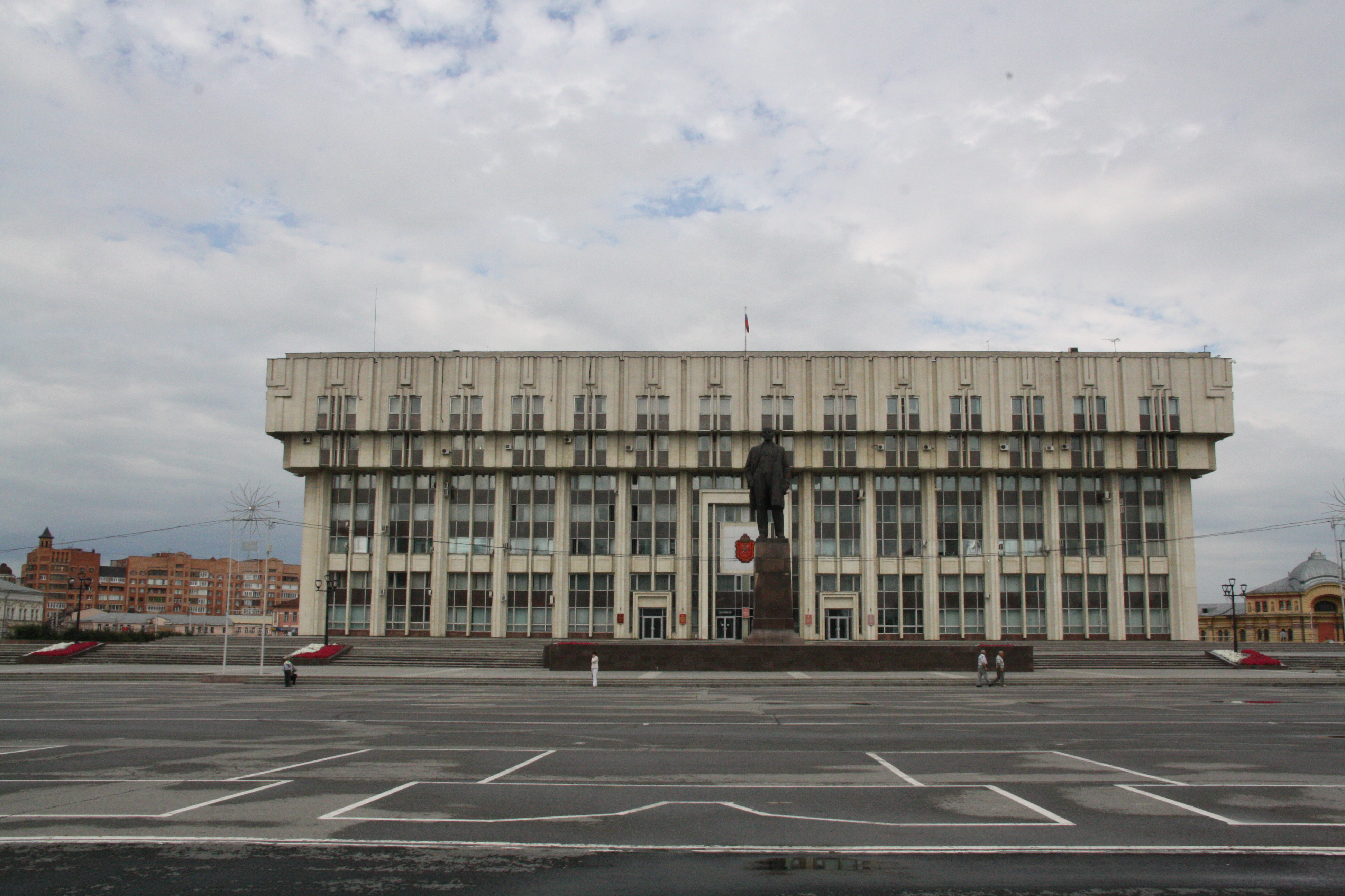 Lenin Square (Tula)